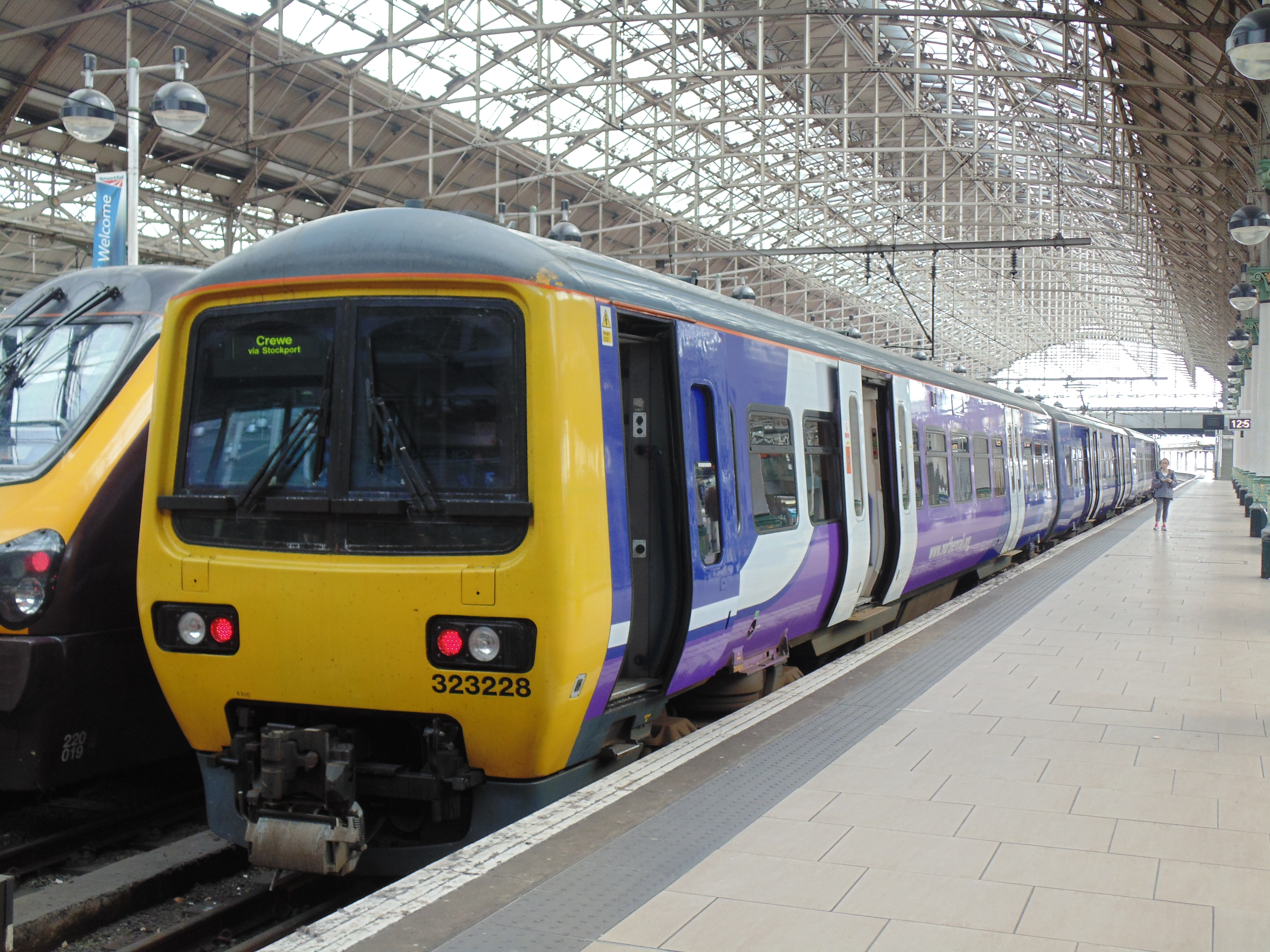 Northern Rail 323228 at Manchester Piccadilly.